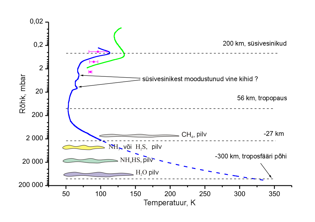 Tropospheric profile of Uranus. Translated into Estonian.